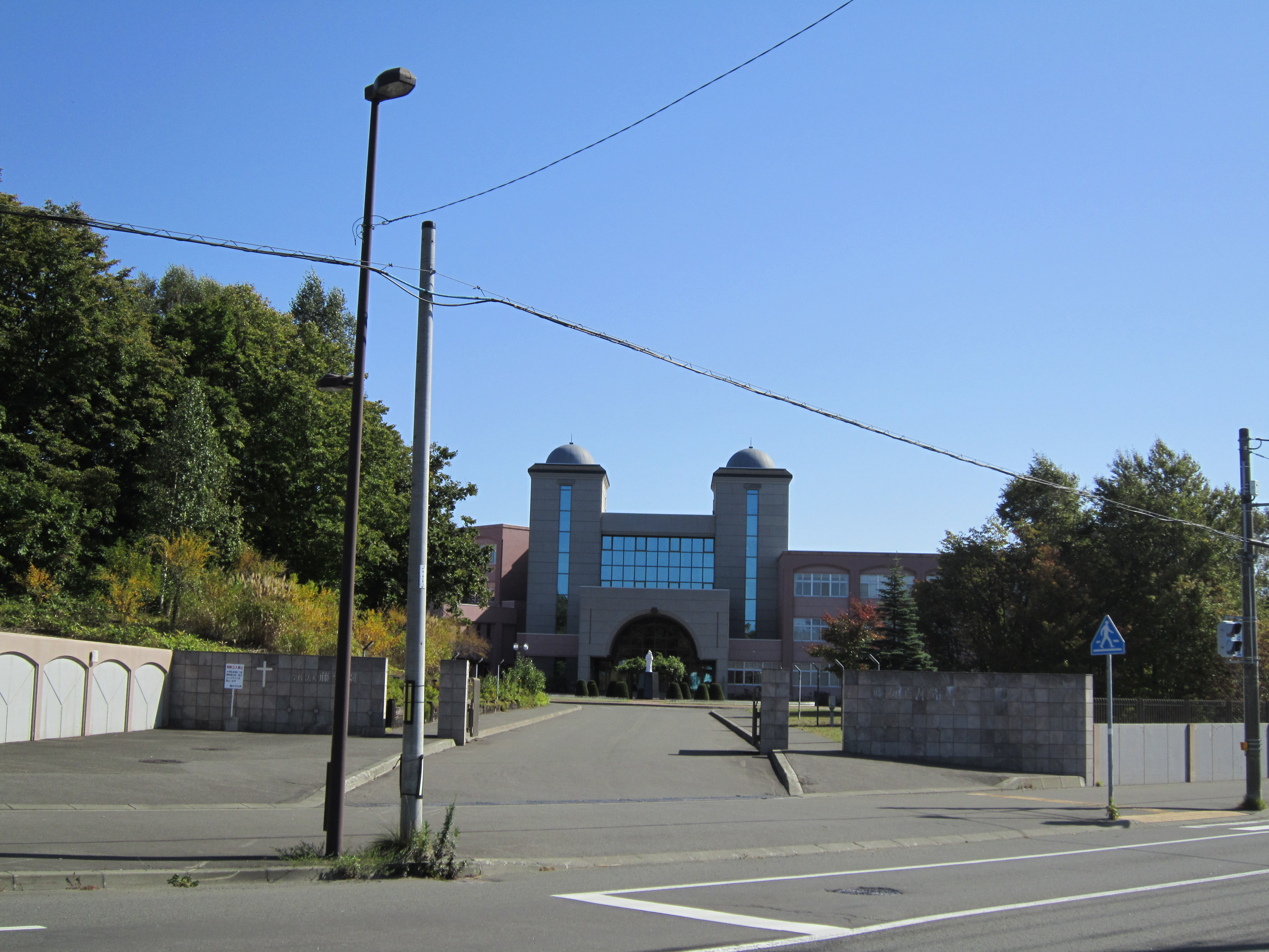 Fuji Women's University Hanakawa Campus